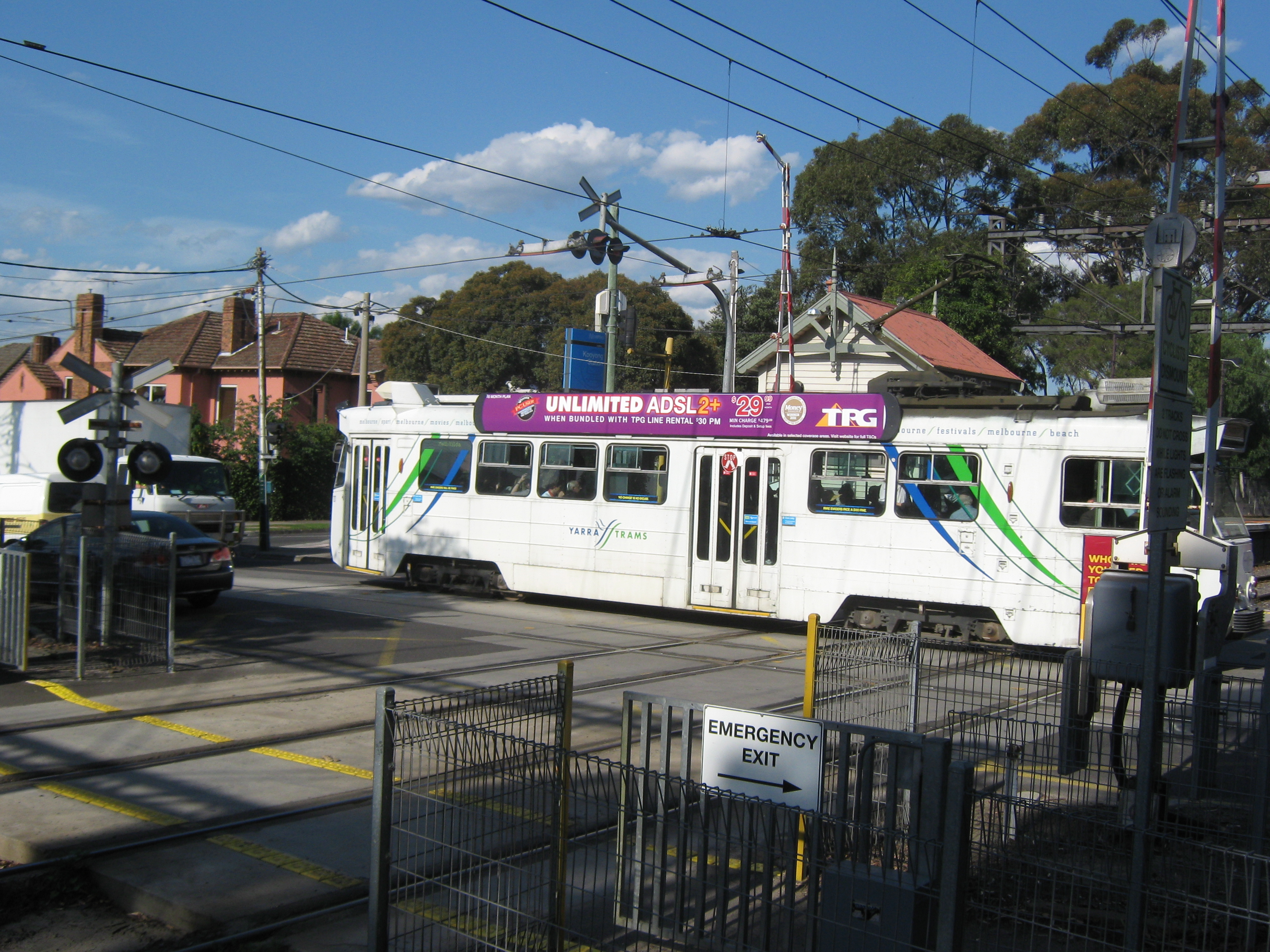 Z2 101 crossing Kooyong Station level crossing. One of four locations in Melbourne where trams and trains cross at grade, 2011